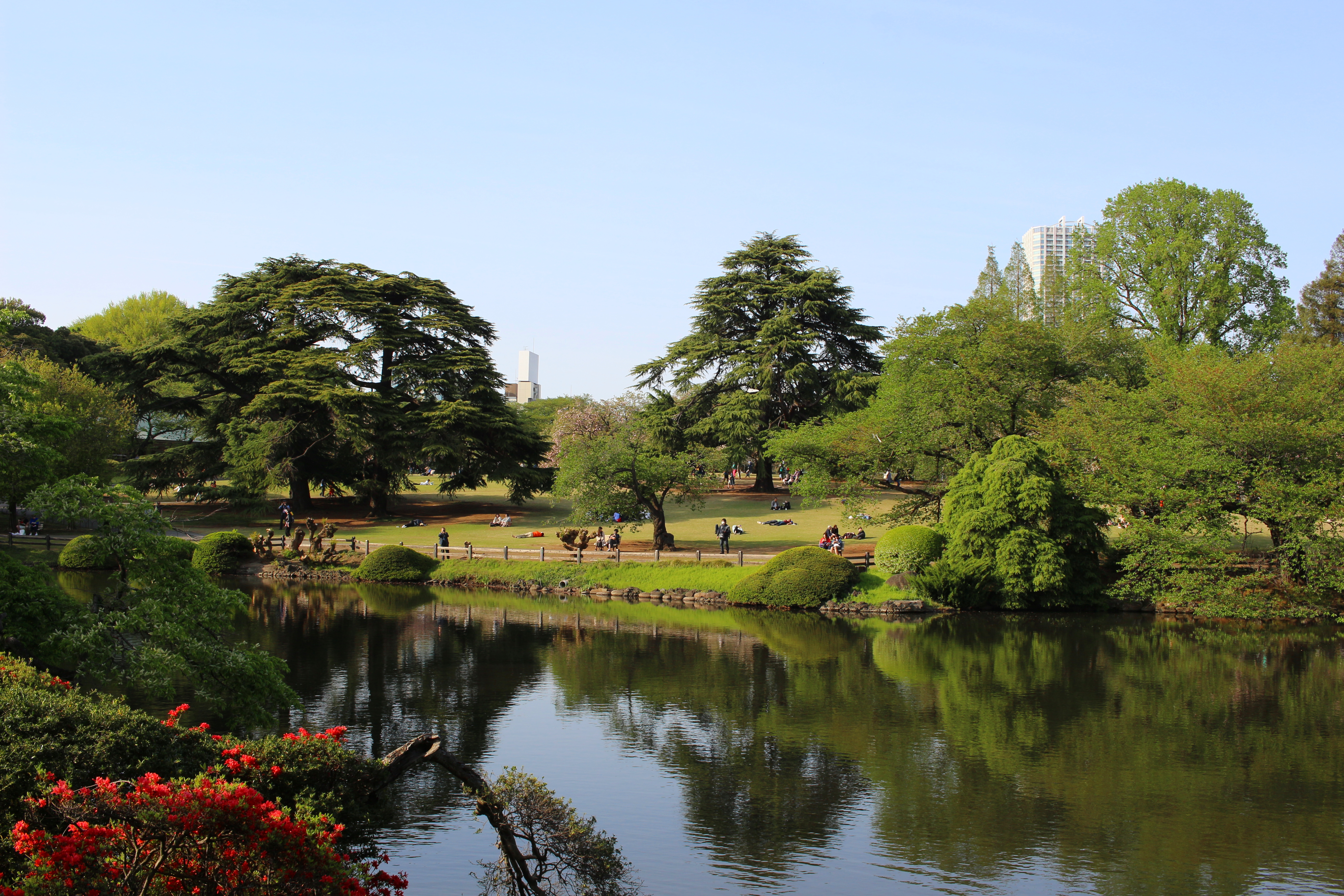 Shinjuku Gyo-en in Tokyo, April 2018.